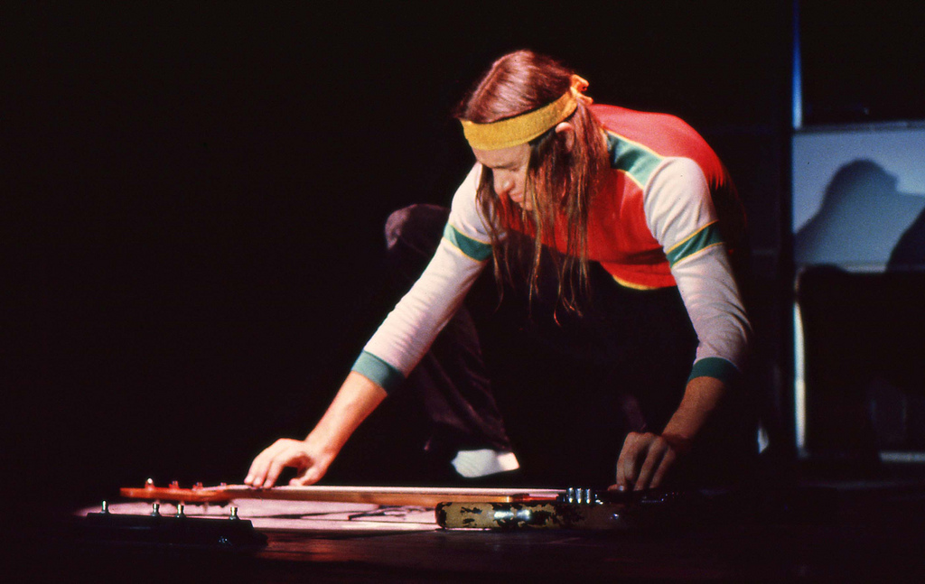 Jaco Pastorius with bass guitar, 1980